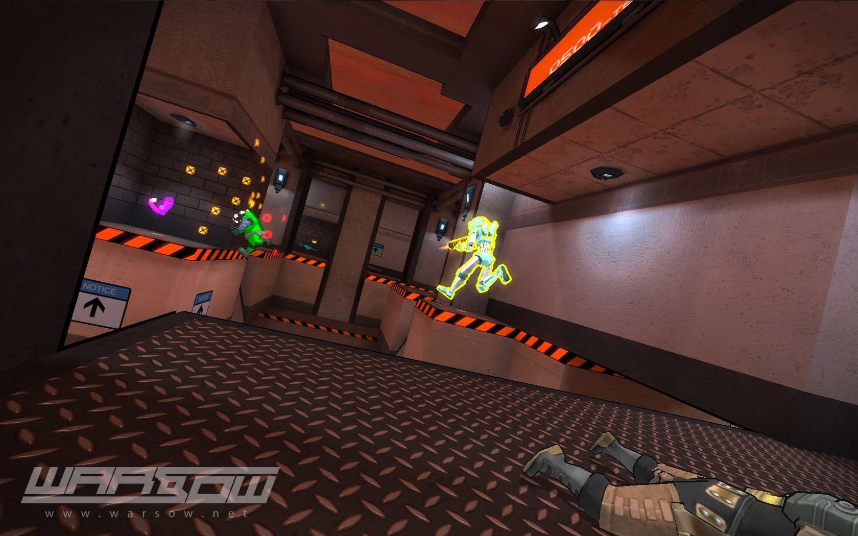 Should use Template:Free_screenshot